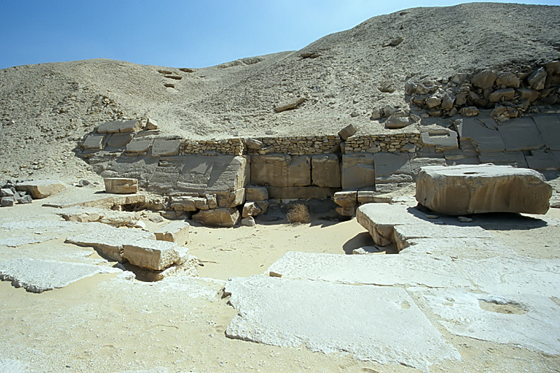 North chapel, south pyramid of Sesostris I, Lisht, Egypt